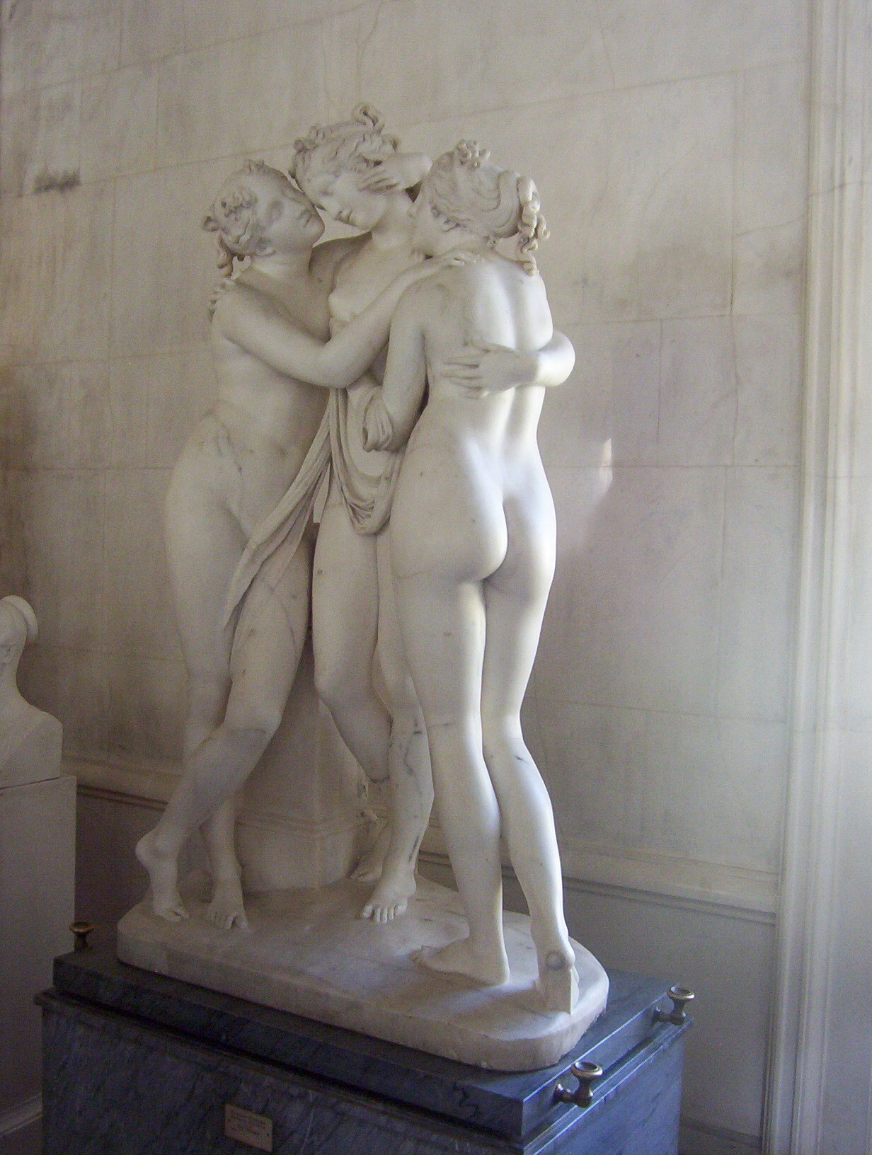 From the youngest to oldest the Graces were: Agleaea ("Beauty"), Euphrosyne ("Good Cheer"), and Thalia ("Festivities"). Also known as the Charites (Greek Mythology name) or Gratiae by the Romans. They appear in many works of art, such as Boticelli's Primavera at the Uffizi gallery.